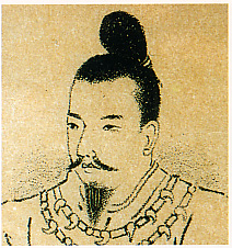 6th Tennō Kōan (孝安天皇 Kōan-tennō), who is presumed to have reigned Japan from 392 BC till 291 BC.